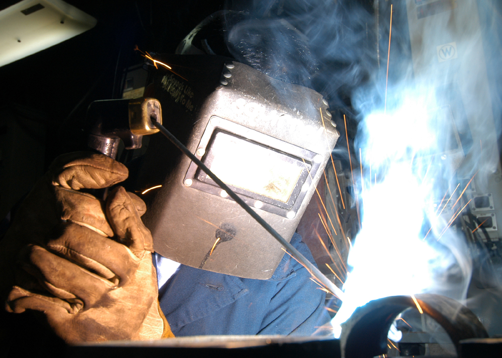 Retrieved from [1] on March 20, en:2005 by Spangineer. Photo taken by Justin McGarry of Hull Technician Chris B. Millones